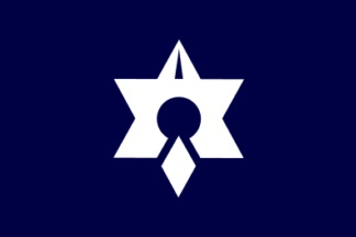 Flag of Takahama Fukui